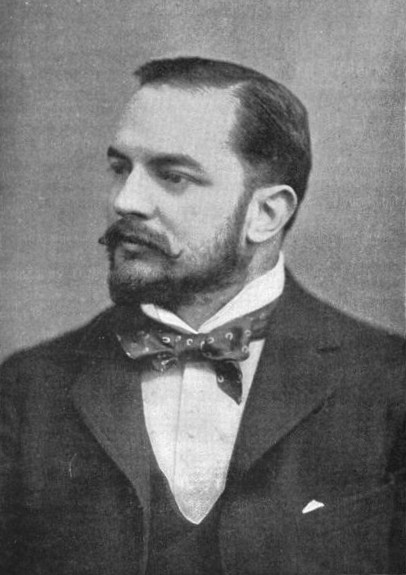 Thomas "Tommy" Dewar, a Scottish whisky distiller. He donated the US Open Cup trophy in 1912 with the purpose of promoting soccer in the US. The cup was given to the tournament's winner until it was retired in 1979 due to poor condition. The trophy is now permanently housed in the National Soccer Hall of Fame in Oneota, N.Y.